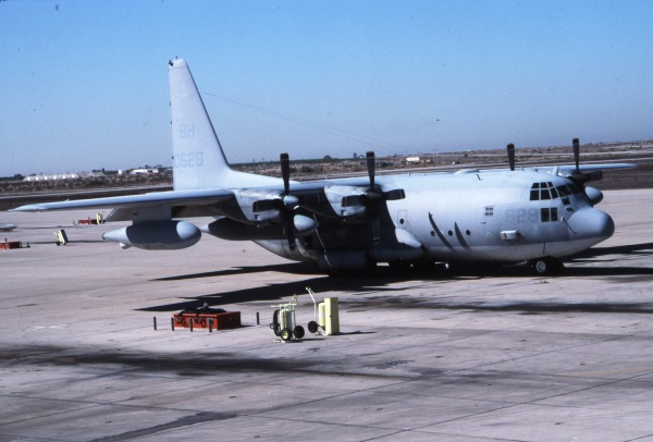 PictionID:43813274 - Catalog:17.S_000757 - Title:Lockheed KC-130R 160628 VMGR-252 BH828 MCAS Yuma 18Mar96 RJF - Filename:17.S_000757.tif - --------Image from the René Francillon Photo Archive. Having had his interest in aviation sparked by being at the receiving end of B-24s bombing occupied France when he was 7-yr old, René Francillon turned aviation into both his vocation and avocation. Most of his professional career was in the United States, working for major aircraft manufacturers and airport planning/design companies. All along, he kept developing a second career as an aviation historian, an activity that led him to author more than 50 books and 400 articles published in the United States, the United Kingdom, France, and elsewhere. Far from “hanging on his spurs,” he plans to remain active as an author well into his eighties.-------PLEASE TAG this image with any information you know about it, so that we can permanently store this data with the original image file in our Digital Asset Management System.--------------SOURCE INSTITUTION: San Diego Air and Space Museum Archive